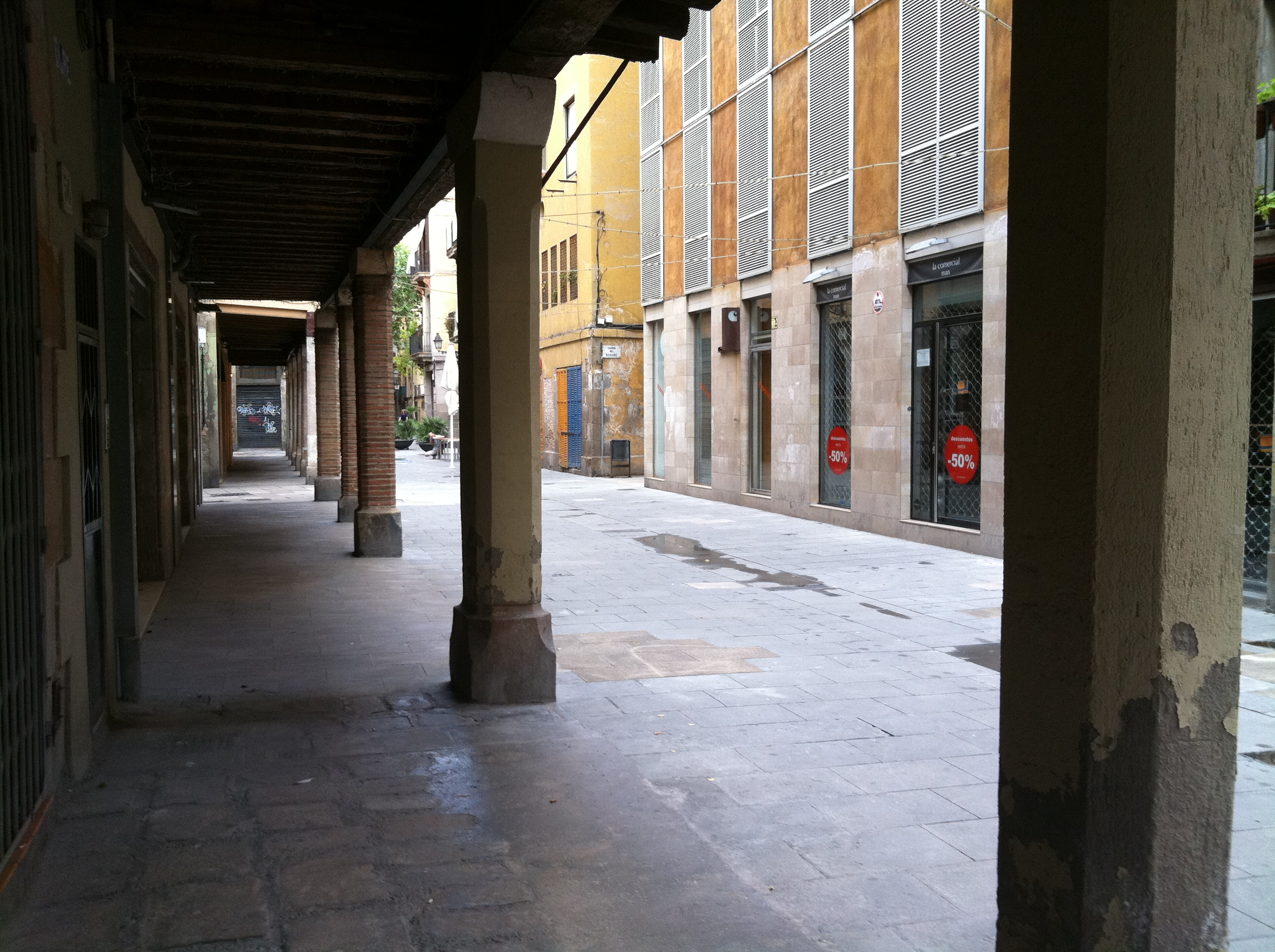 Street of the neighbourhood of La Ribera in Barcelona